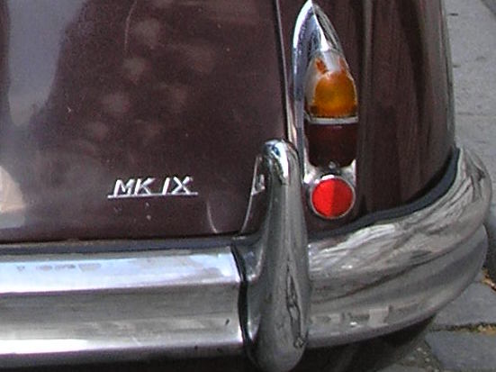 Image of a Jaguar vehicle in Vienna.